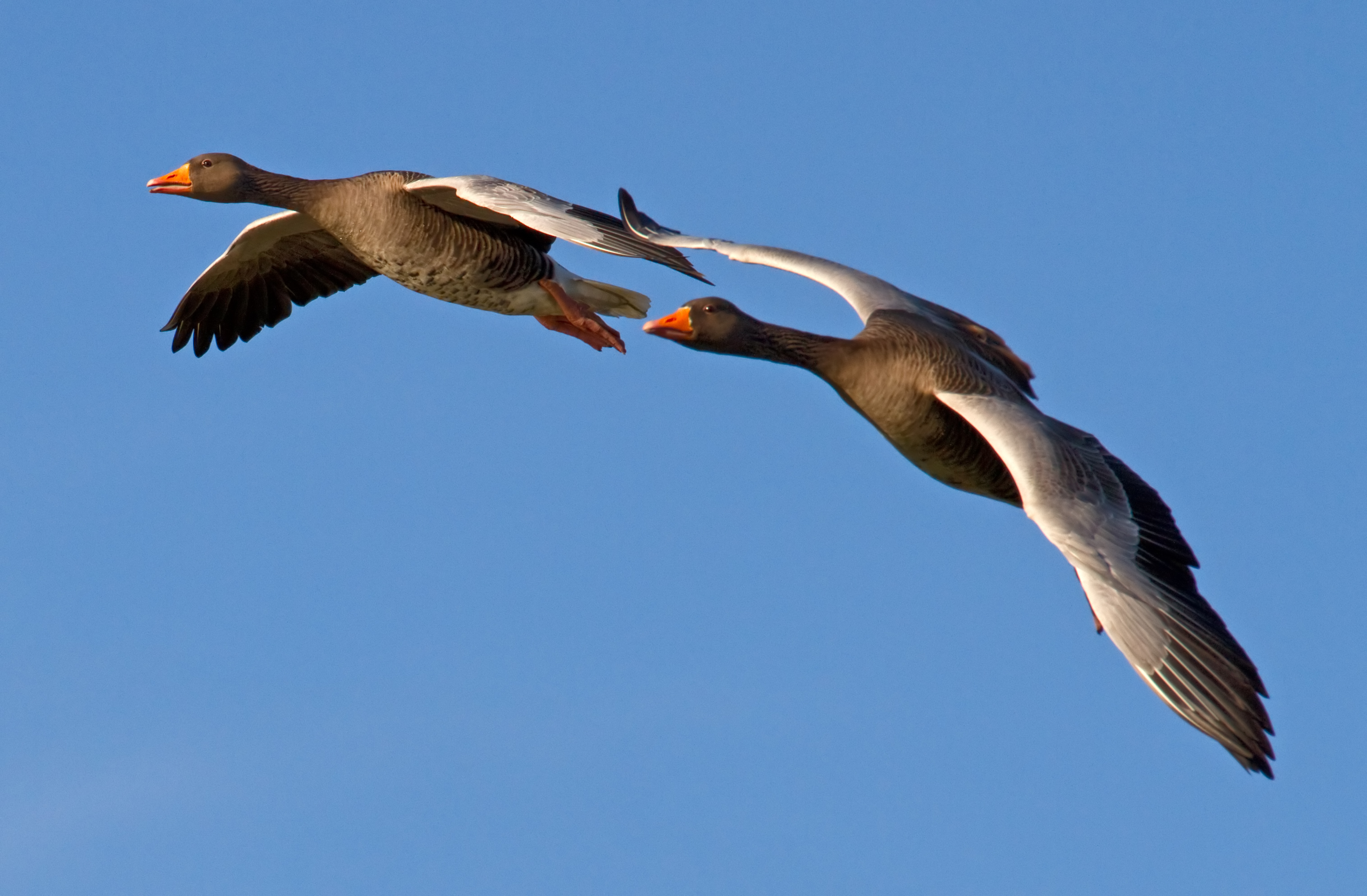 Geese Flying Past 2